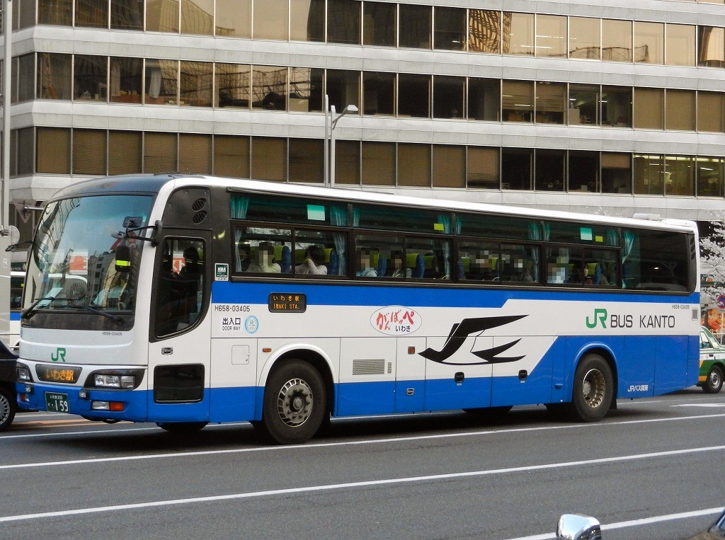 JR bus Kanto (Iwaki branch) Nissan Diesel Space Arrow (KL-RA552RBN)